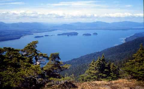 Photograph of Duncan Canal, Alexander Archipelago, Alaska. View looking northwest up Duncan Canal towards Kupreanof Mountain. Rocks on west (left) side of the Canal are a combination of deep-sea sedimentary and volcanic rocks of the Permian and Mississippian Cannery Formation. On the east side, the Canal is bordered by Triassic Hyd Group volcanic rocks.